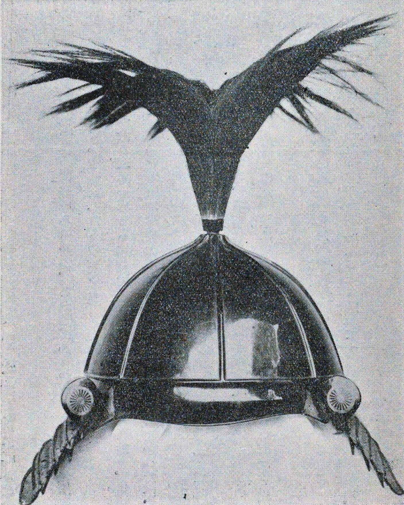 A kabuto which Sakakibara Yasumasa used.